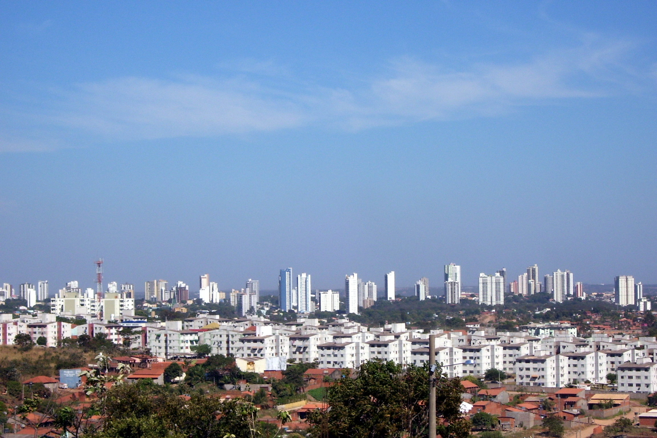 View of Cuiabá, Mato Grosso, Brazil.